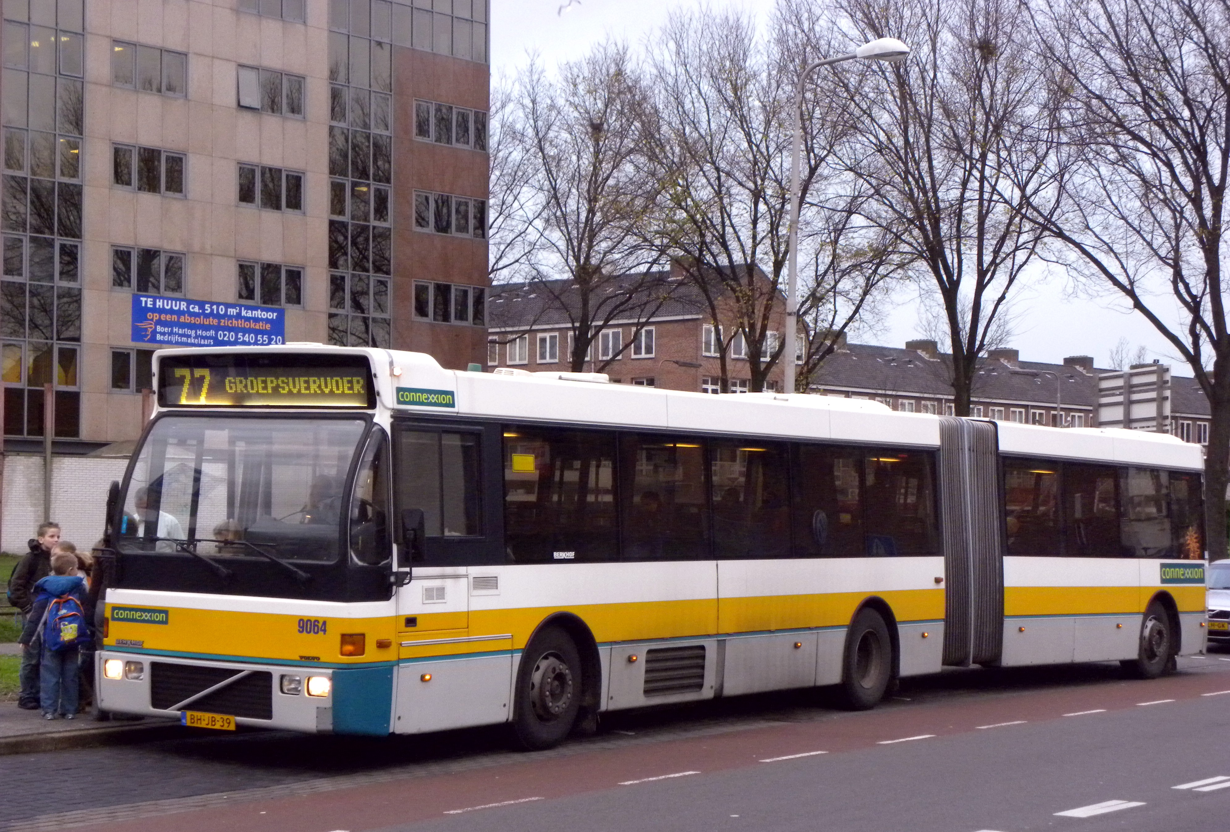 Volvo Berkhof Duvedec B 10 M-6X2-ARTT Connexxion 9064 now for group transport, built in 1999.